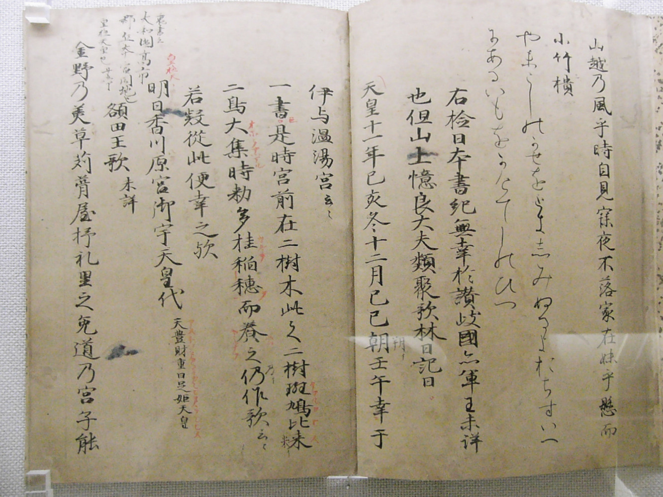 Collection of Ten Thousand Leaves, collated version in Genryaku years (Genryaku kōbon Man'yōshū) Edition with the largest number of poems. 11th century, Heian period, later collated and annoted at June 9, 1184 (according to inscription on last volume), 20 volumes, ink on decorated paper. One page size 25x17cm, Tokyo National Museum, Tokyo